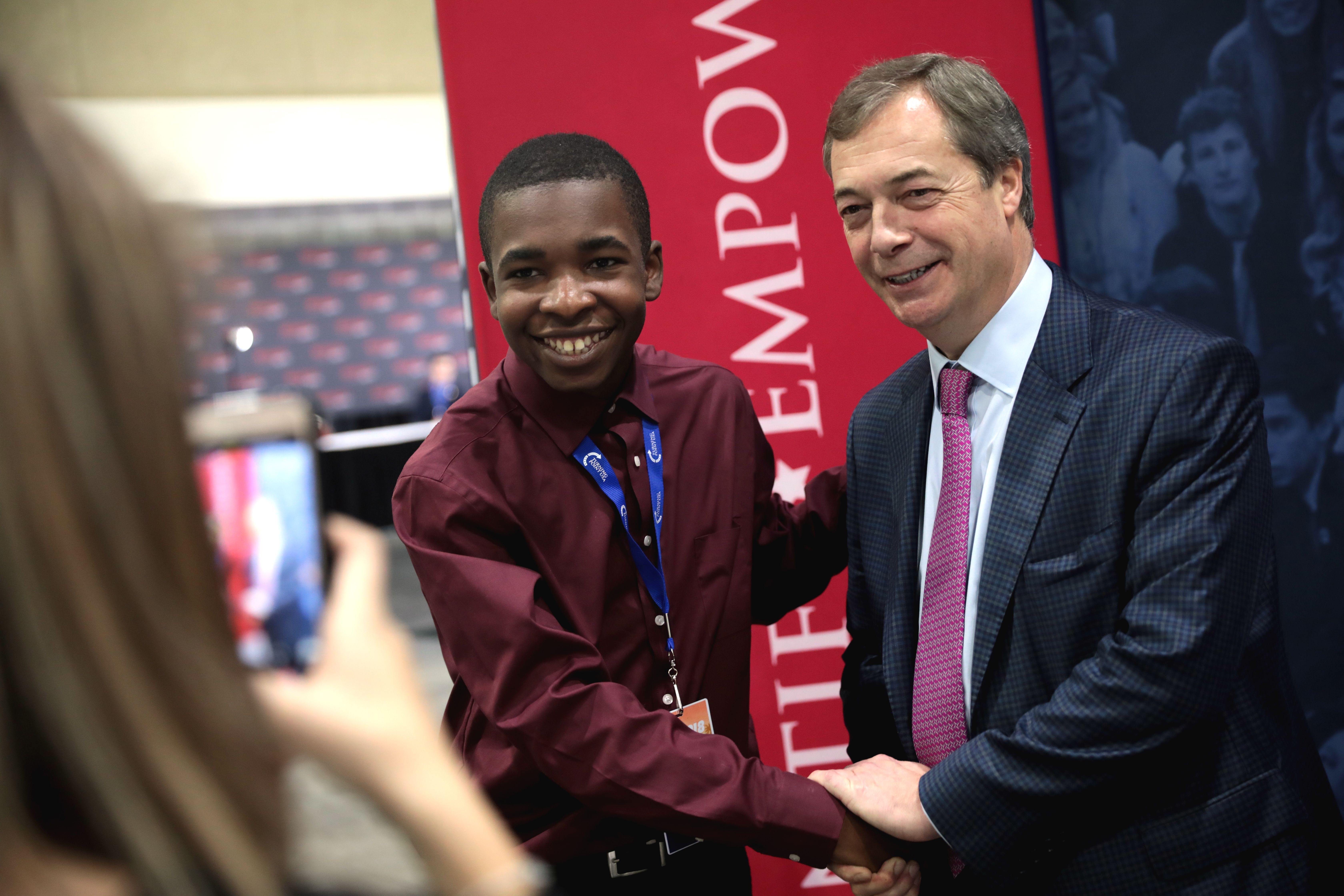 Nigel Farage with an attendee at the 2018 Student Action Summit hosted by Turning Point USA at the Palm Beach County Convention Center in West Palm Beach, Florida.